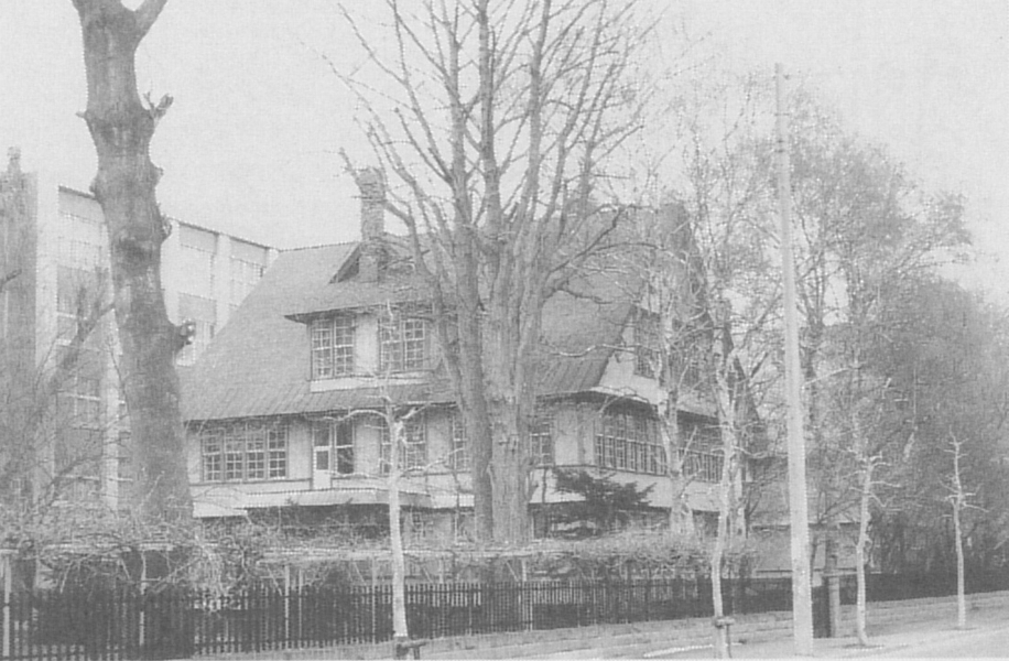 Sapporo Fuji High School (札幌藤高等女学校)